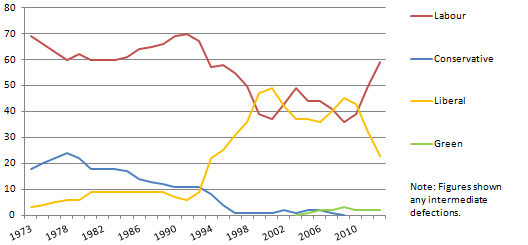 A graph showing the total number of seats for each political party in local elections in Sheffield, UK, 1973–2011. The party figures include independents once aligned to them (e.g., an Independent Liberal Democrat is counted as a Liberal Democrat).